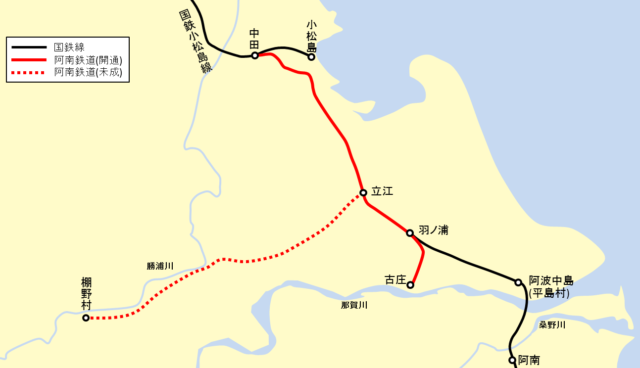 Route map of Anan railway (completed line and planned line), including surrounding government railway lines.